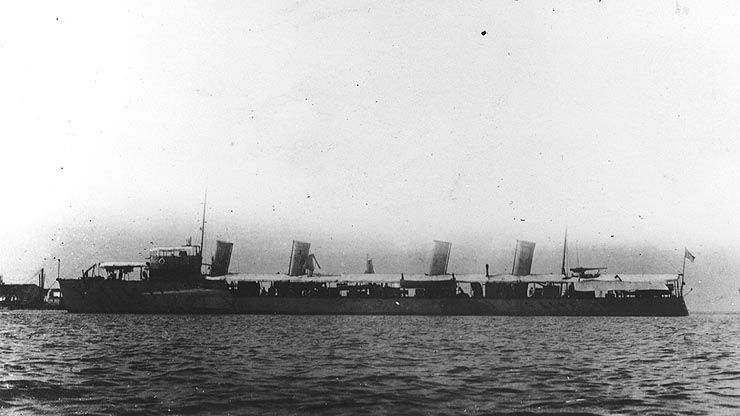 PD USN photo of USS Bainbridge DD-1, NH #88544, collected from and cropped, 650px across Removed caption read: Photo # NH 88544 USS Bainbridge in Asiatic waters, circa 1915-1916